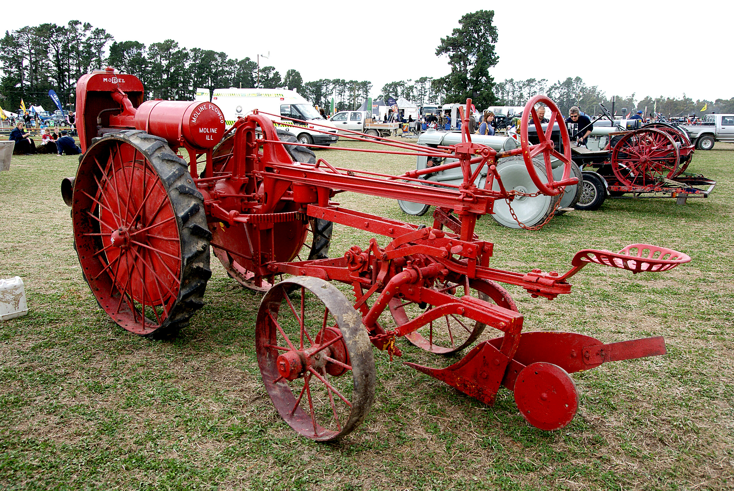 The Moline Plow Company was an American manufacturer of plows and other farm implements, headquartered in Moline, Illinois, USA. Moline Plow was formed in the 1870s when the firm of Candee & Swan, a competitor of Deere and Company (also of Moline), won a lawsuit against Deere allowing it to use the "Moline Plow" name. Reorganized under the new name, it built a line of horse-drawn plows and other implements to serve the large American agricultural market. The implement line included wagons and carriages. The company absorbed various smaller wagon and carriage building companies.